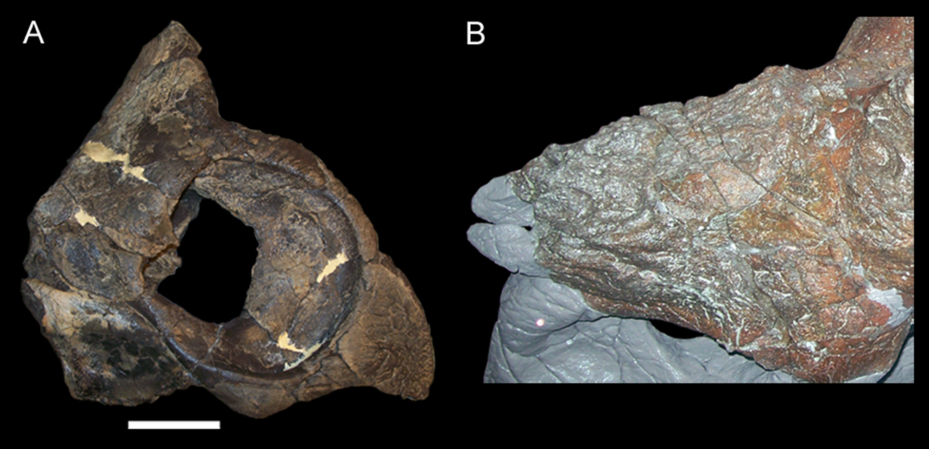 Nasals of Achelousaurus horneri. (A) MOR 591, articulated rostral, premaxillae, nasals, and rostral portions of the maxillae in right lateral view; (B) MOR 485 (holotype), nasals in left dorsolateral view. Scale bar in A equals 10 cm. MOR 485 was photographed behind glass, so a scale bar could not be applied; for scale, see Sampson (fig. 3 in [14]).